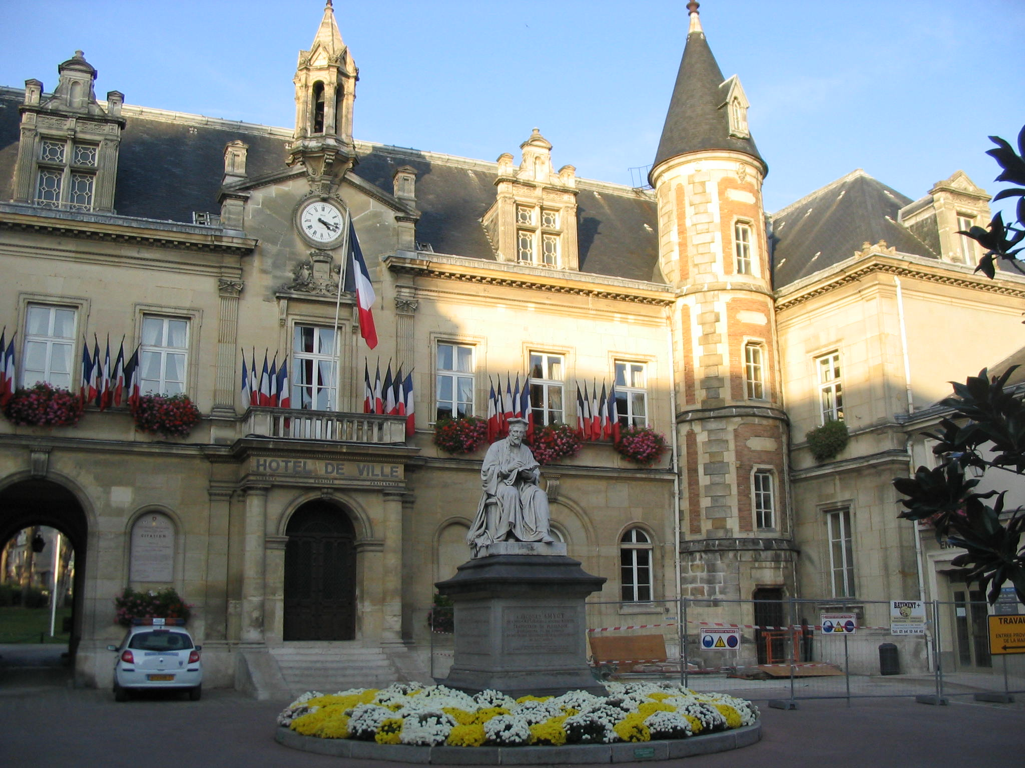 City hall of Melun (Seine-et-Marne, France) with a statue of Jacques Amyot.